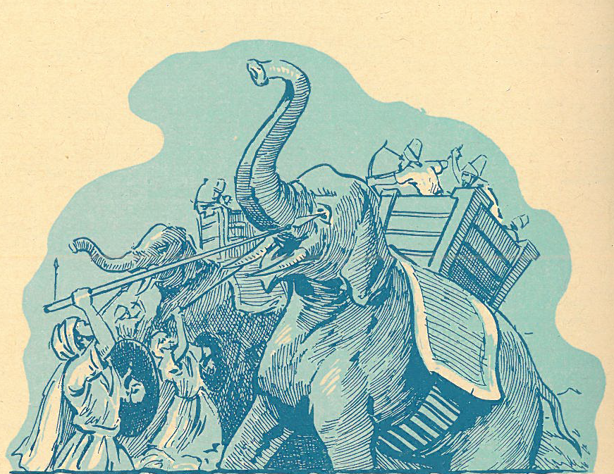 Muslims battleing the Persian war elephants during the Battle of al-Qādisiyyah.